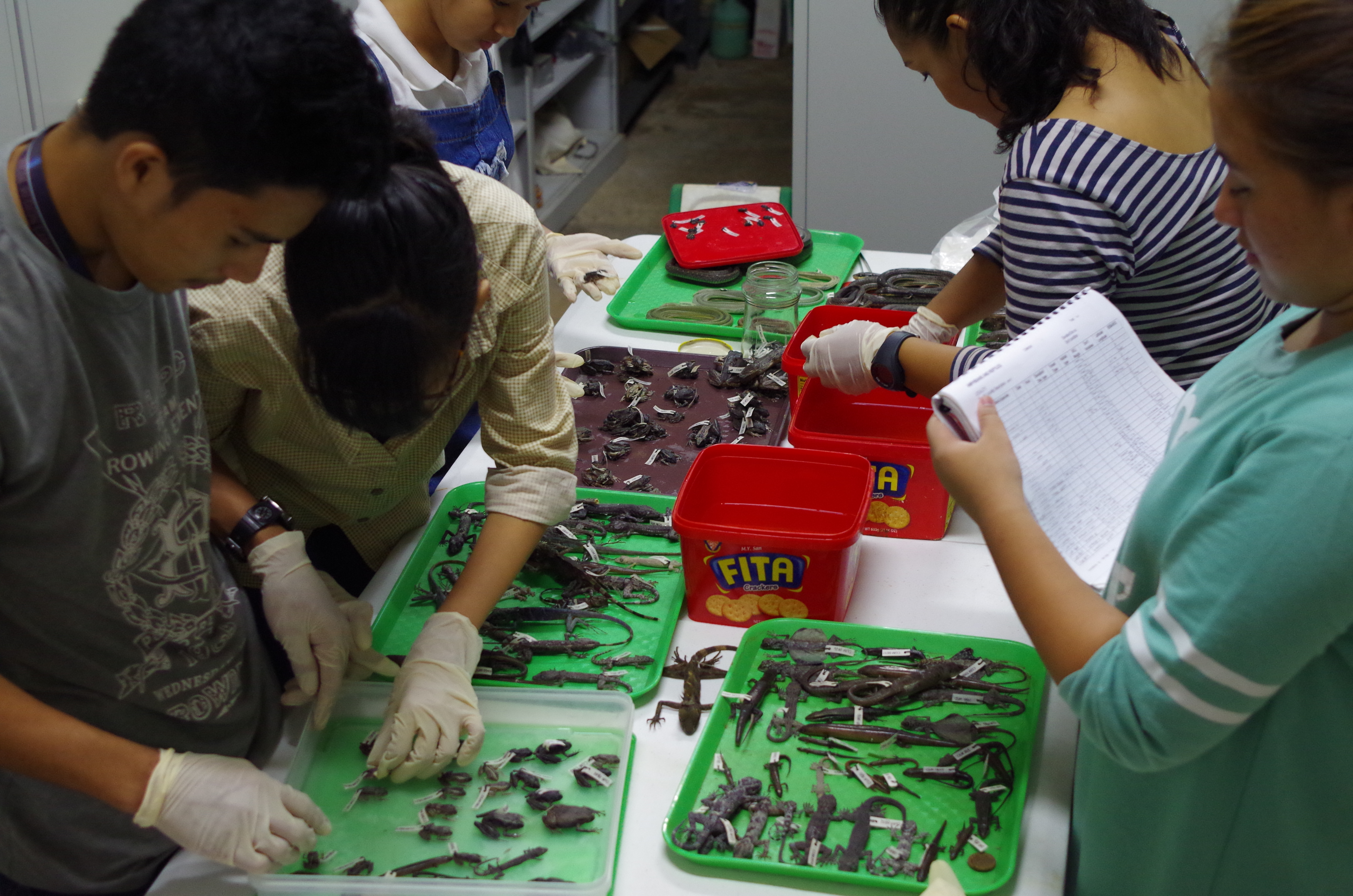 High-school students reviewing a herpetofauna collection at the UPLB Museum of Natural History. This review was part of an on-the-job training program the students were participating in.